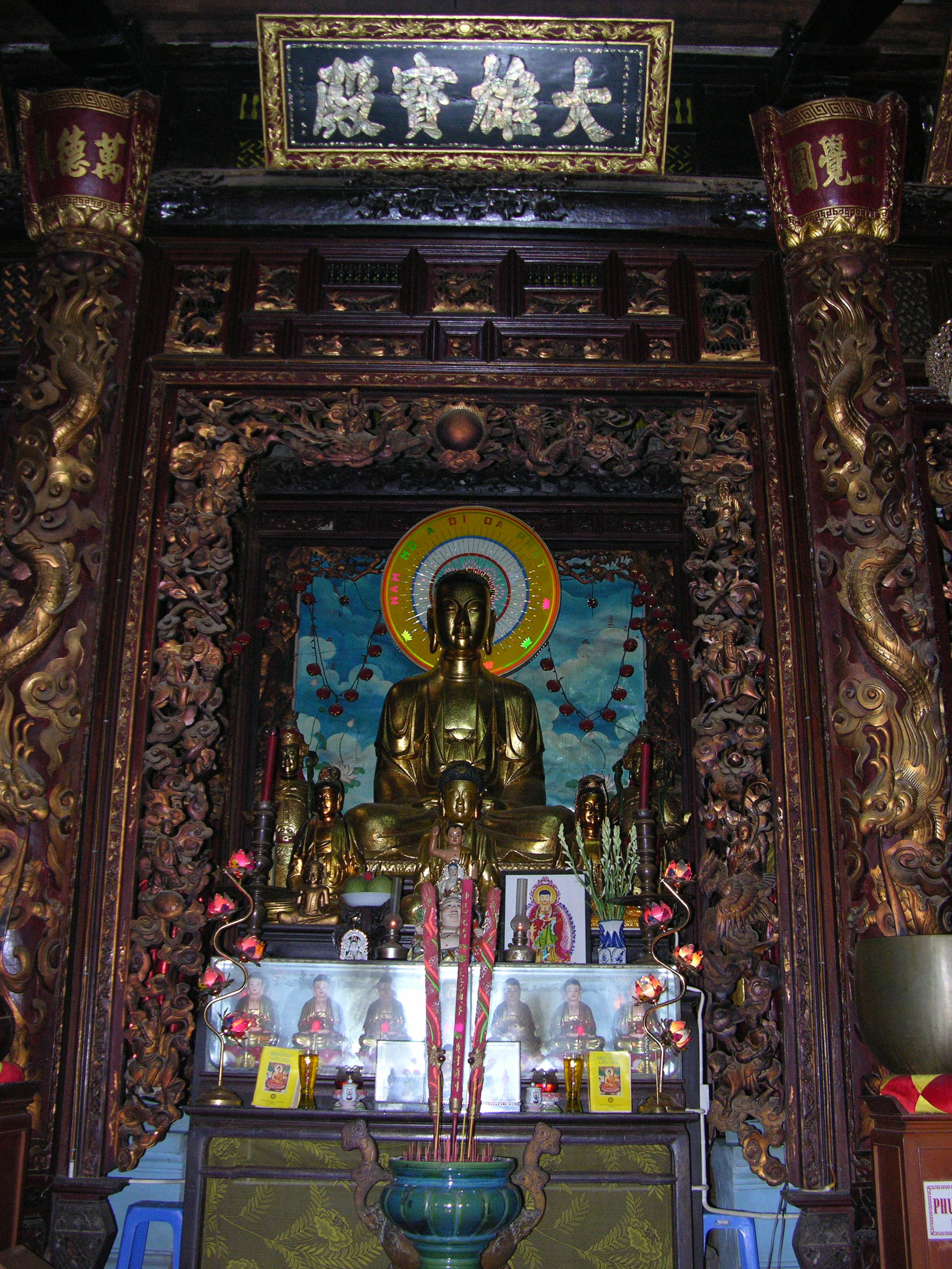 Main Worship place of Vinh Trang Pagoda